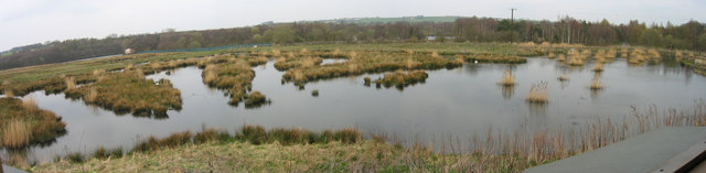 Low Barnes Nature Reserve This natures reserve is run by Durham Wildlife Trust and is a recently developed wildlife area.